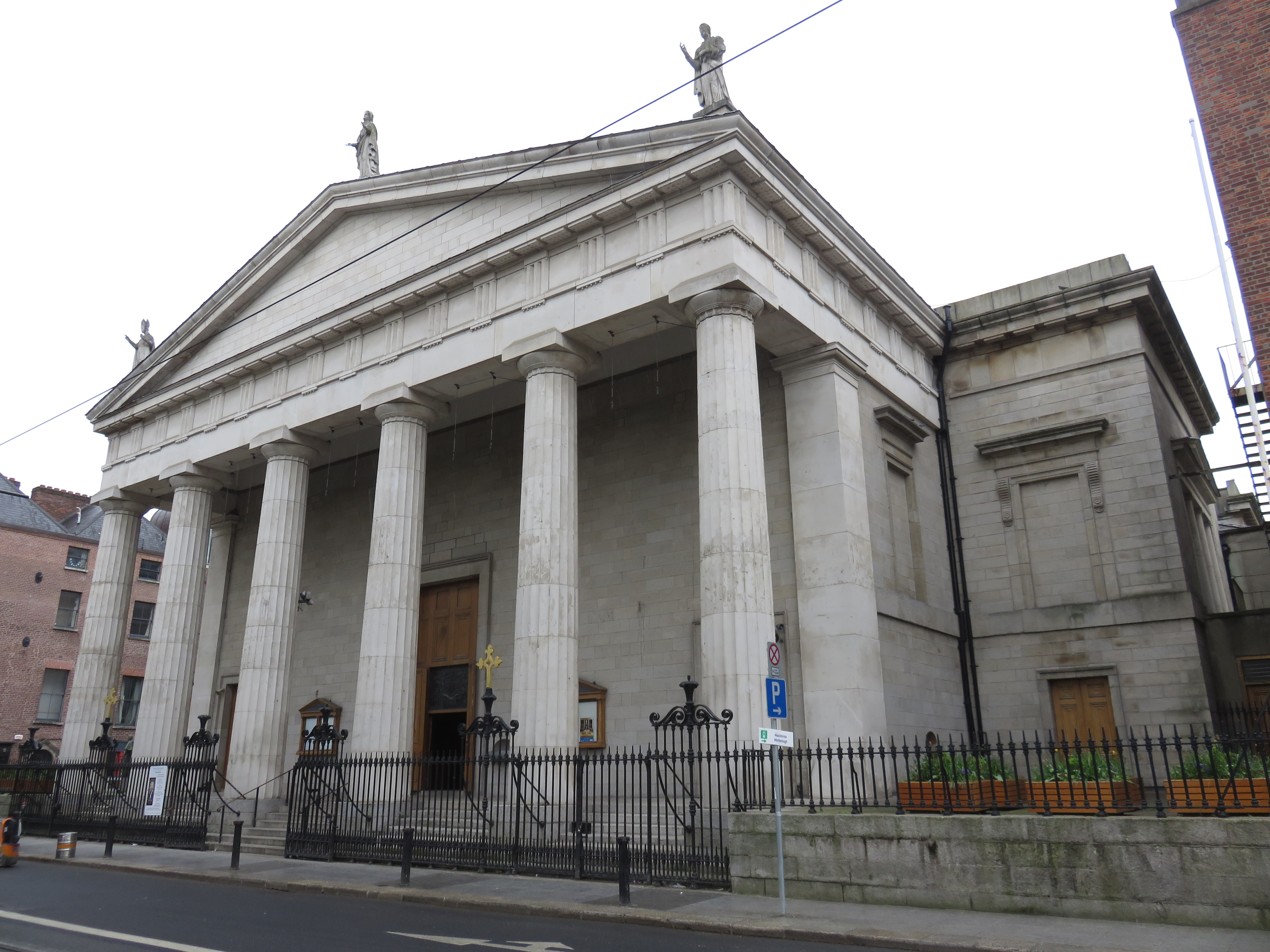 St. Mary's Pro-Cathedral in 2018